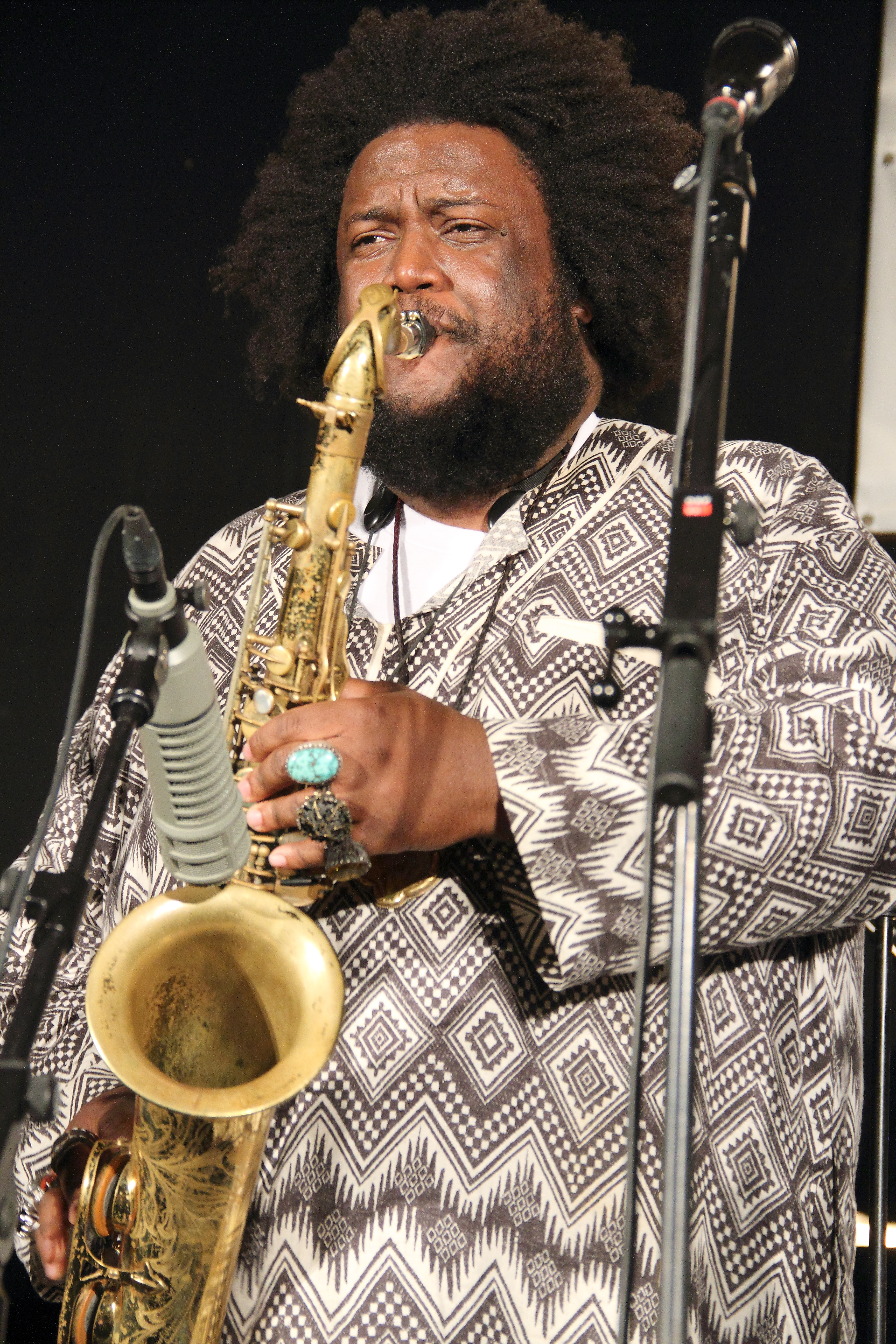 Kamasi Washington & Band at INNtöne Jazzfestival 2018.